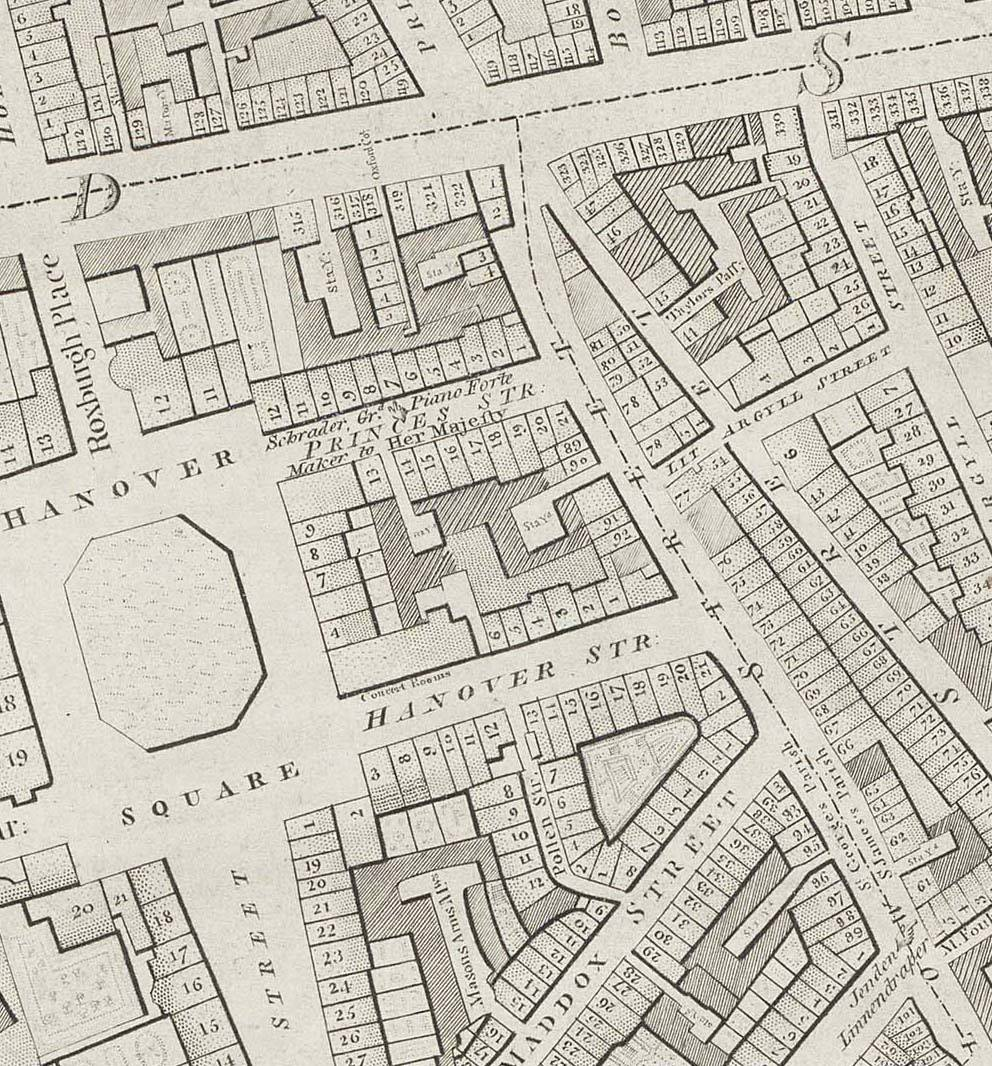 Detail of Hanover Square on Richard Horwood's map of London in 1795 at the scale of 26 inches to the mile showing every house